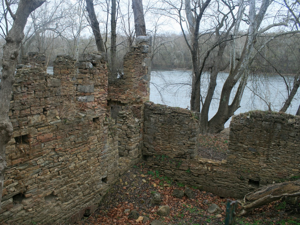 Cement mill near Botelers Ford